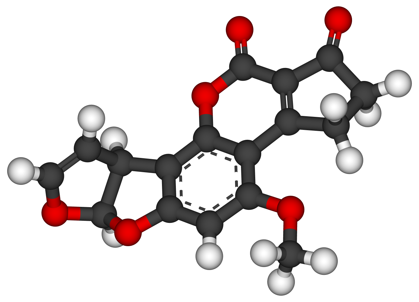 AflatoxinB1